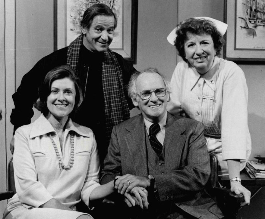 Main cast photo from the television program Doc. Front: Elizabeth Wilson (Annie Bogert), Barnard Hughes (Joe "Doc" Bogert). Back: Irwin Corey (Happy Miller), Mary Wickes (Nurse Beatrice Tully).